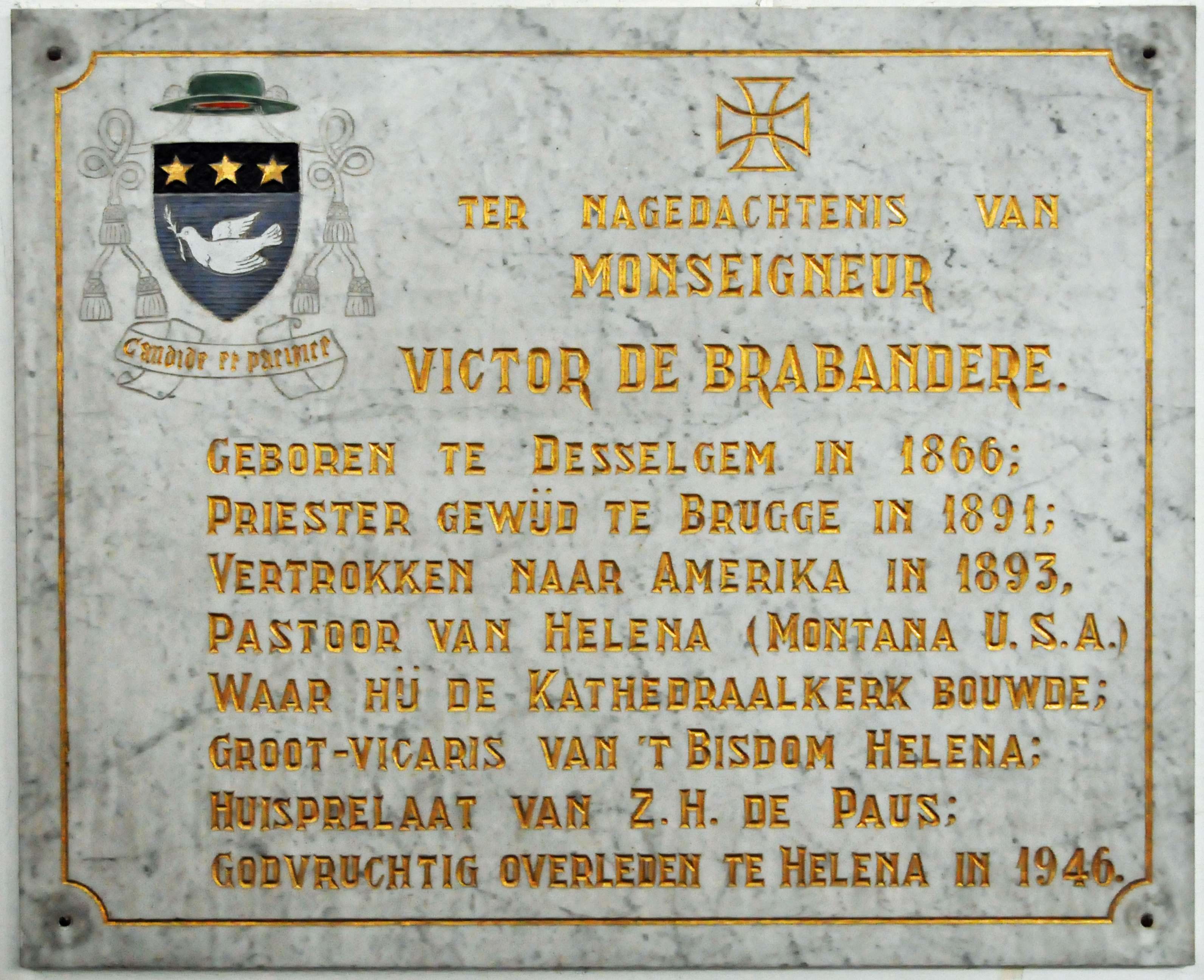 Memorial tablet for Victor De Brabandere (aka Victor Day) in the parish church of Desselgem, West Flanders, Belgium